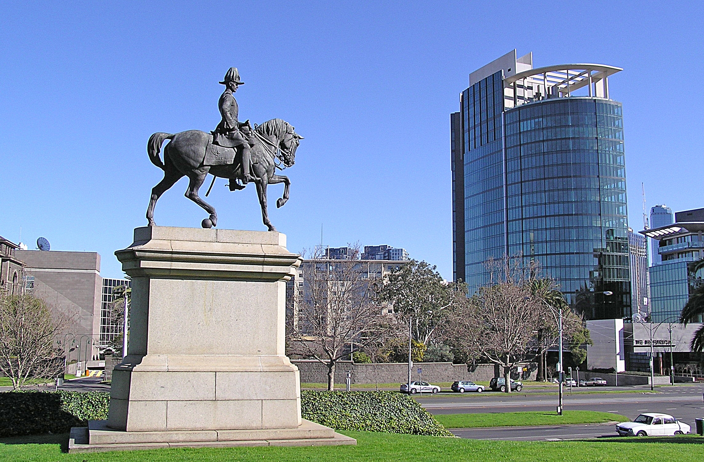 Statue of John Hope, 1st Marquess of Linlithgow ("Lord Linlithgow", "Marquess Linlithgow") in Kings Domain.